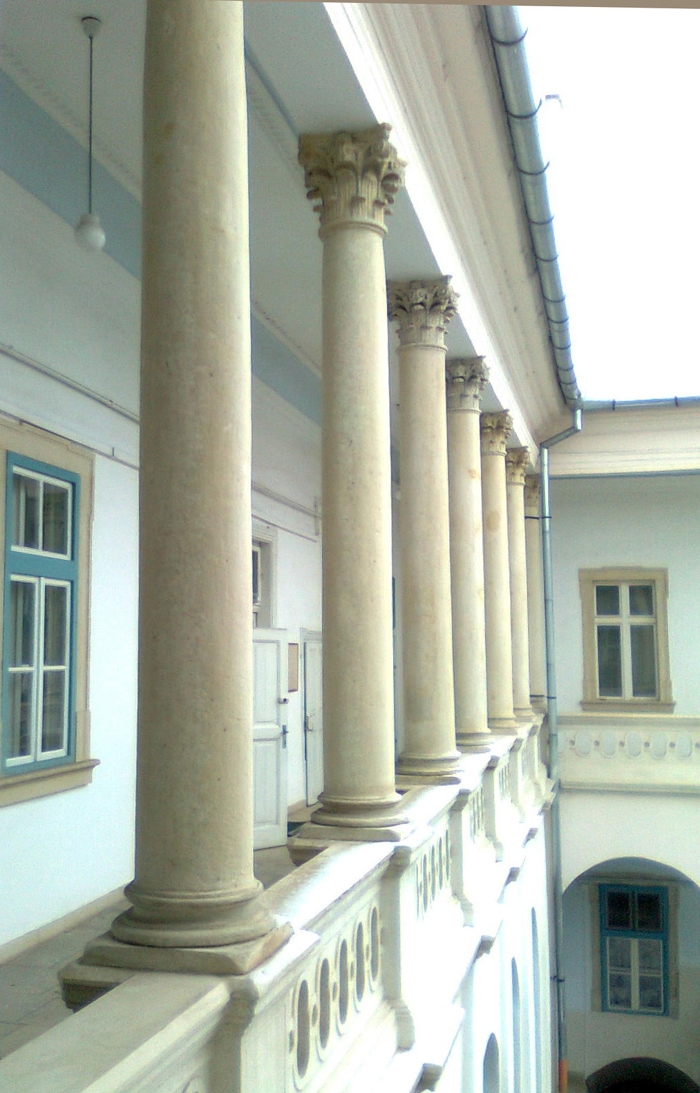 The northern part of the courtyard of the Toldalagi-Korda Palace in Cluj-Napoca